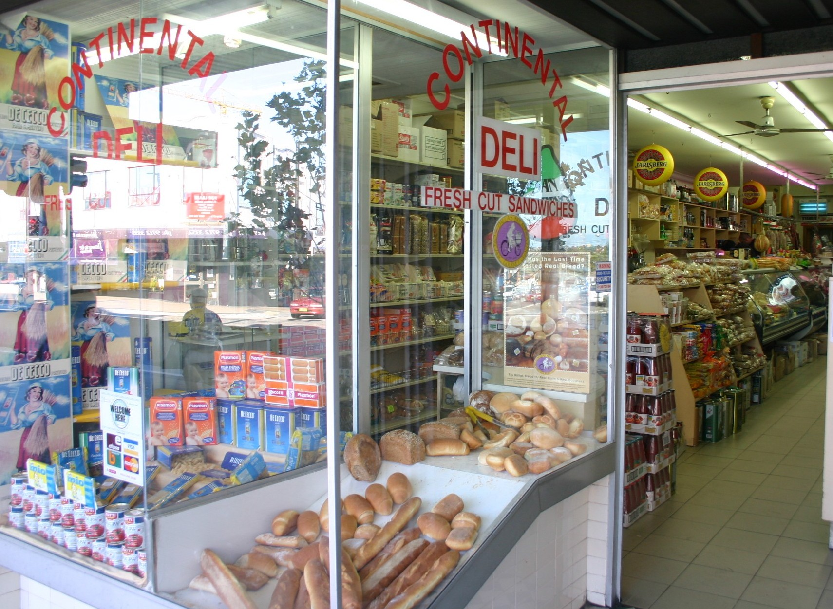 Five Dock Continental Deli.